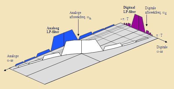 Illustration of the link between analog and digital filters given by the bilinear z-transform